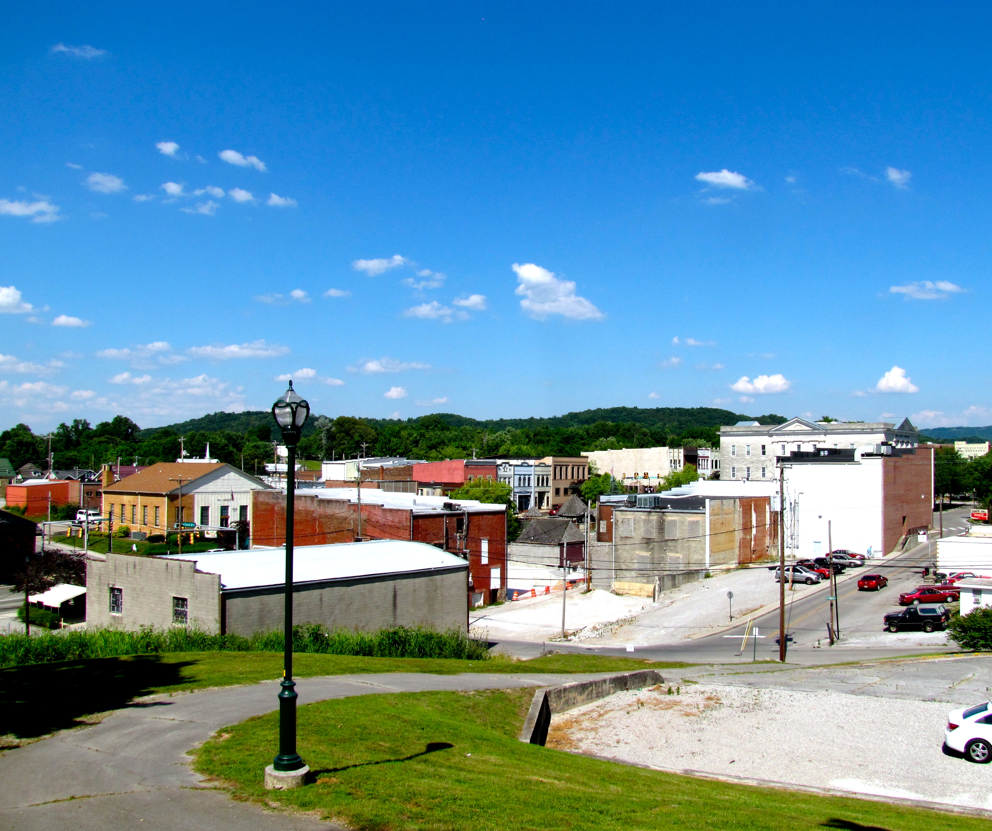 The business district of Sparta, Tennessee, United States, viewed from the Sparta Cemetery.